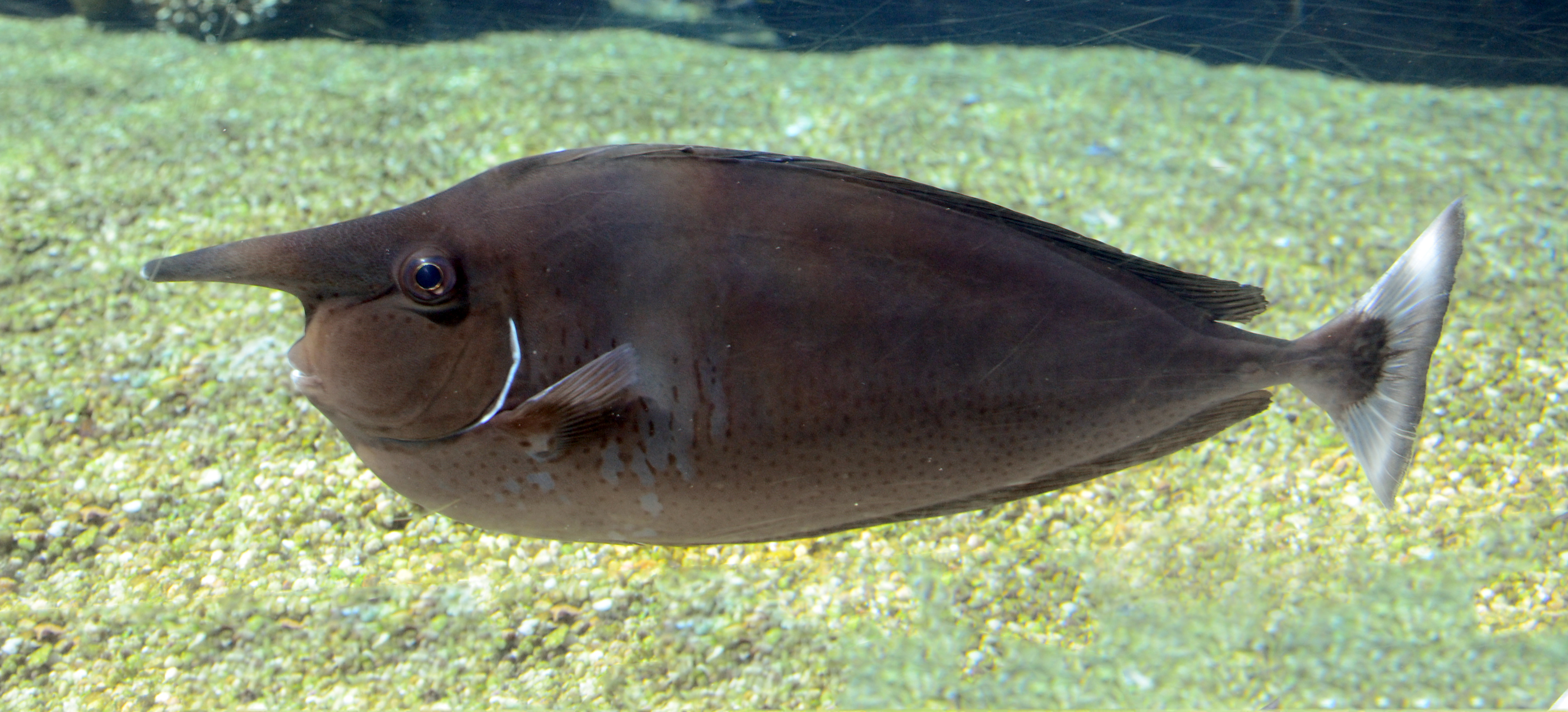 A Naso brevirostris in UShaka Sea World